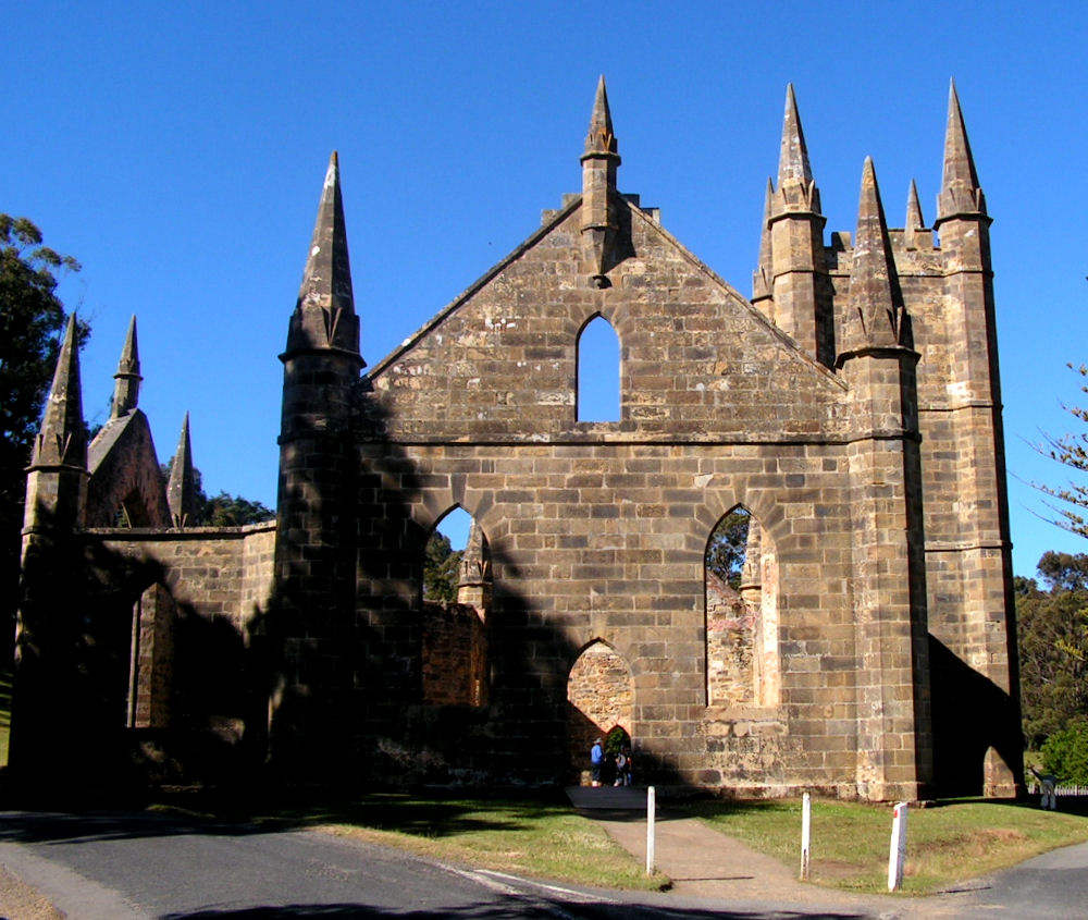 Convict-built church at Port Arthur, Tasmania, Australia